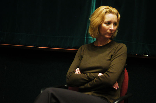 Lisa Kudrow visiting Vassar College